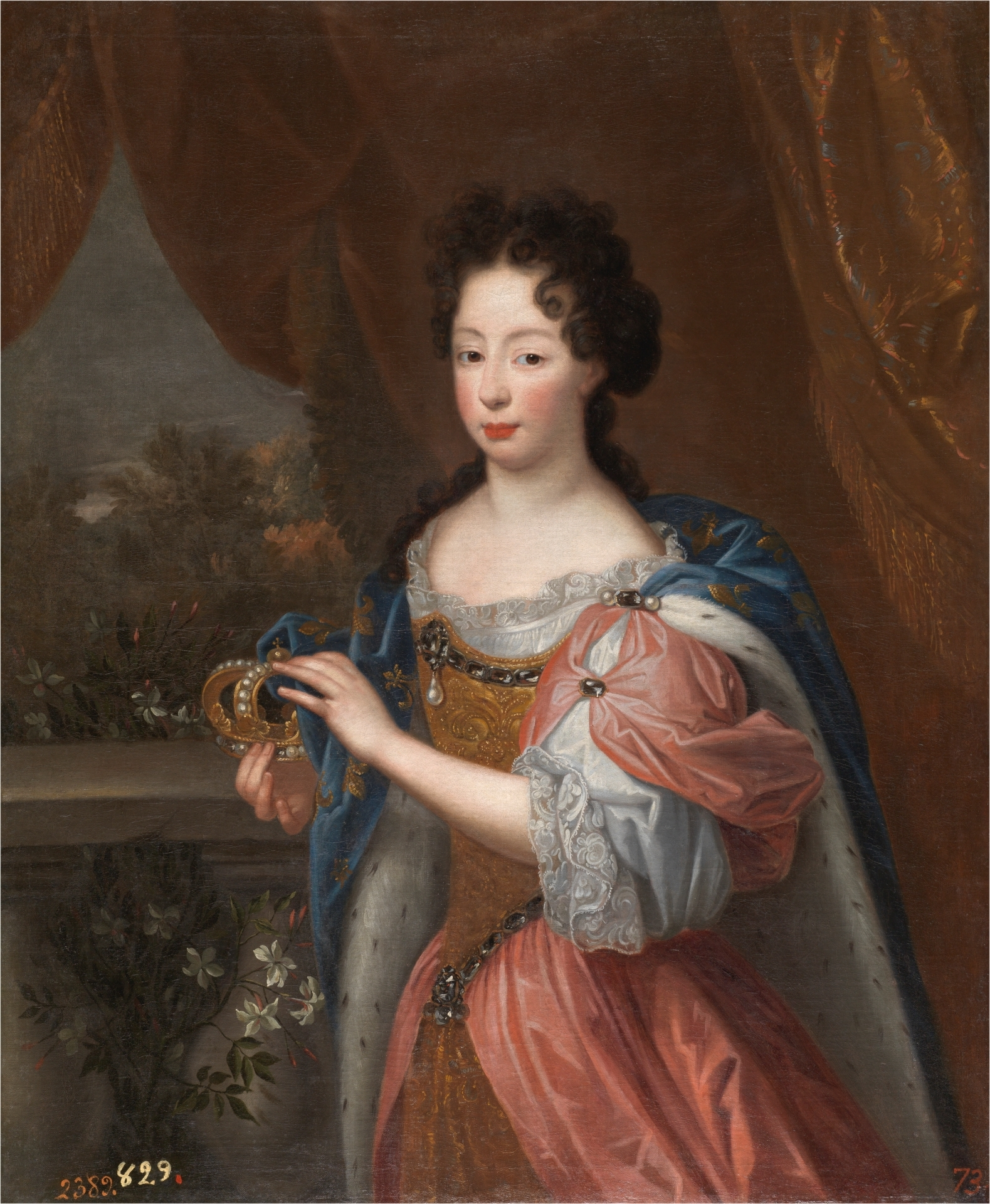 Portrait of Anne Marie d'Orléans (1669-1728), formerly identified as her niece Louise Élisabeth d'Orléans (1709- 1742)